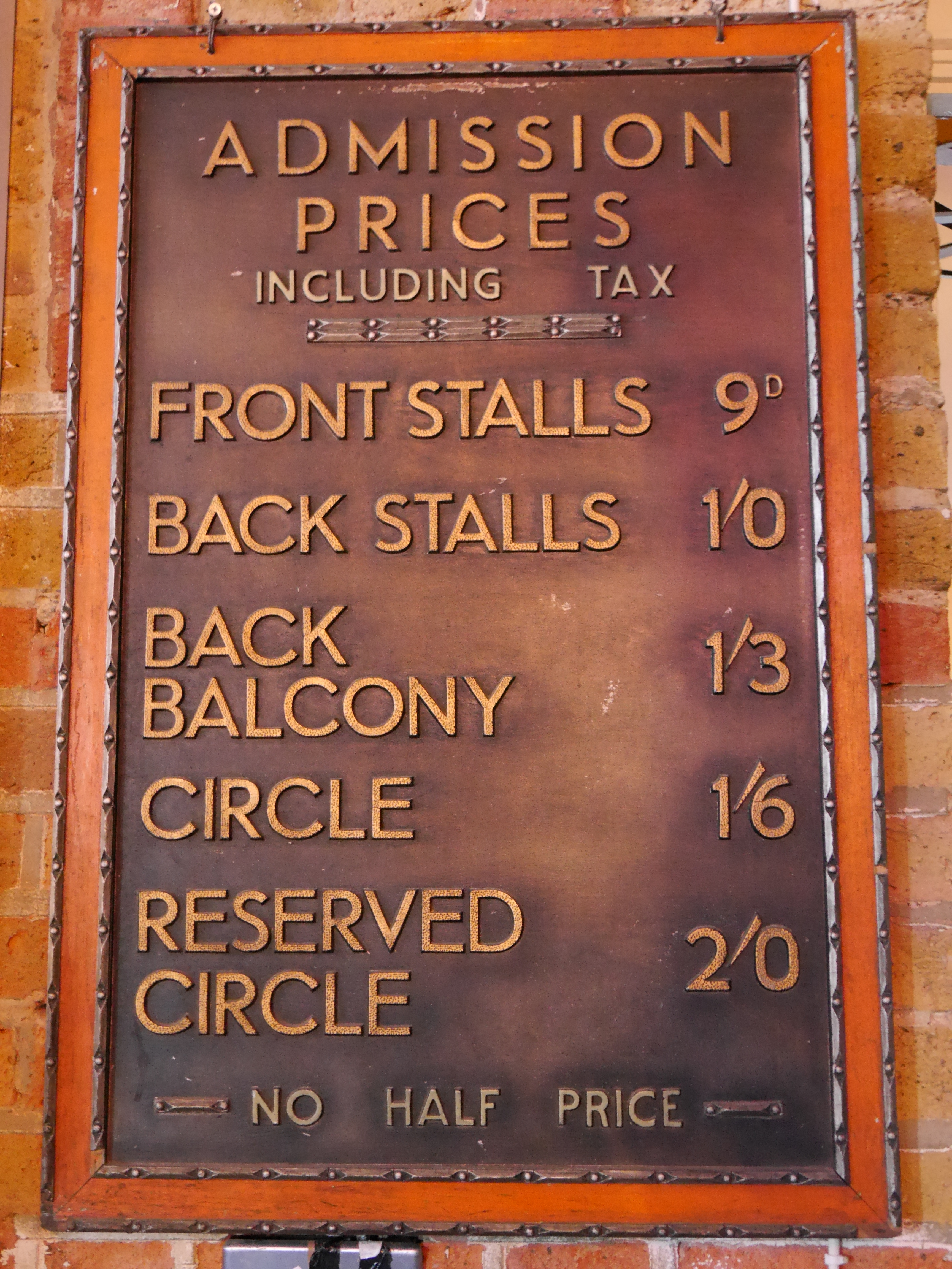 Cinema Museum, London object